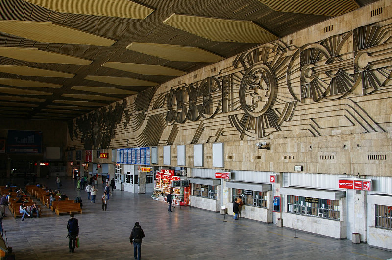 Sofia Central Station, Main concourse